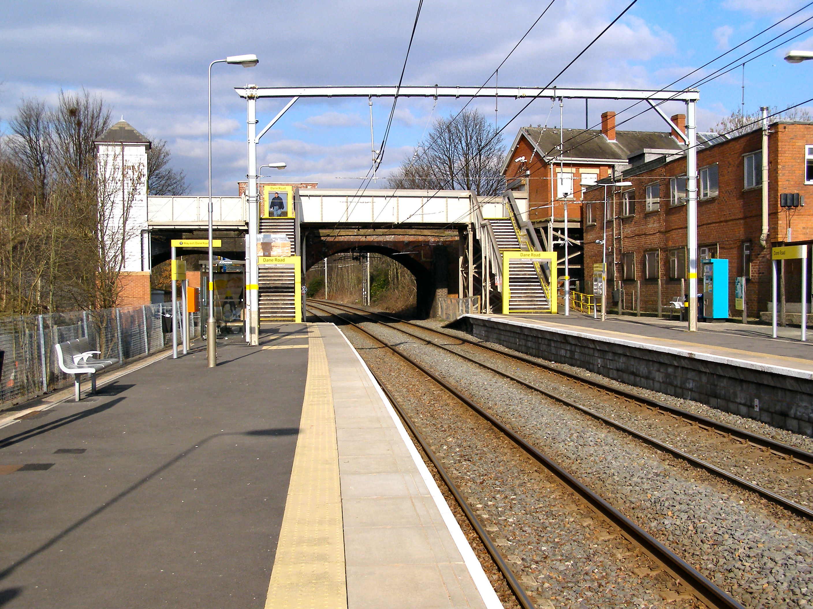 Dane Road Station Looking towards the Dane Road bridge, in the direction of Manchester.